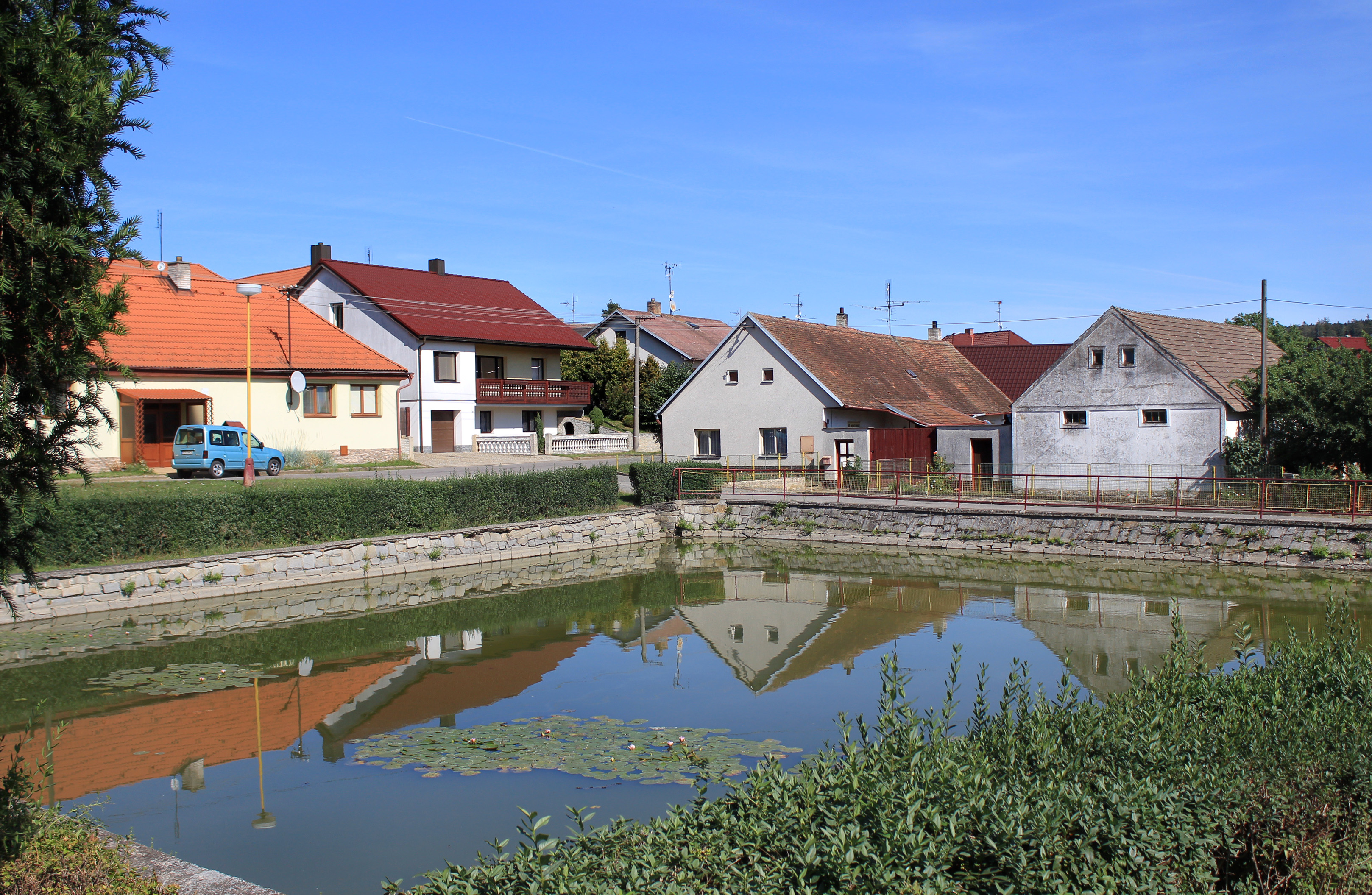 Common pond in Hříšice, Czech Republic.